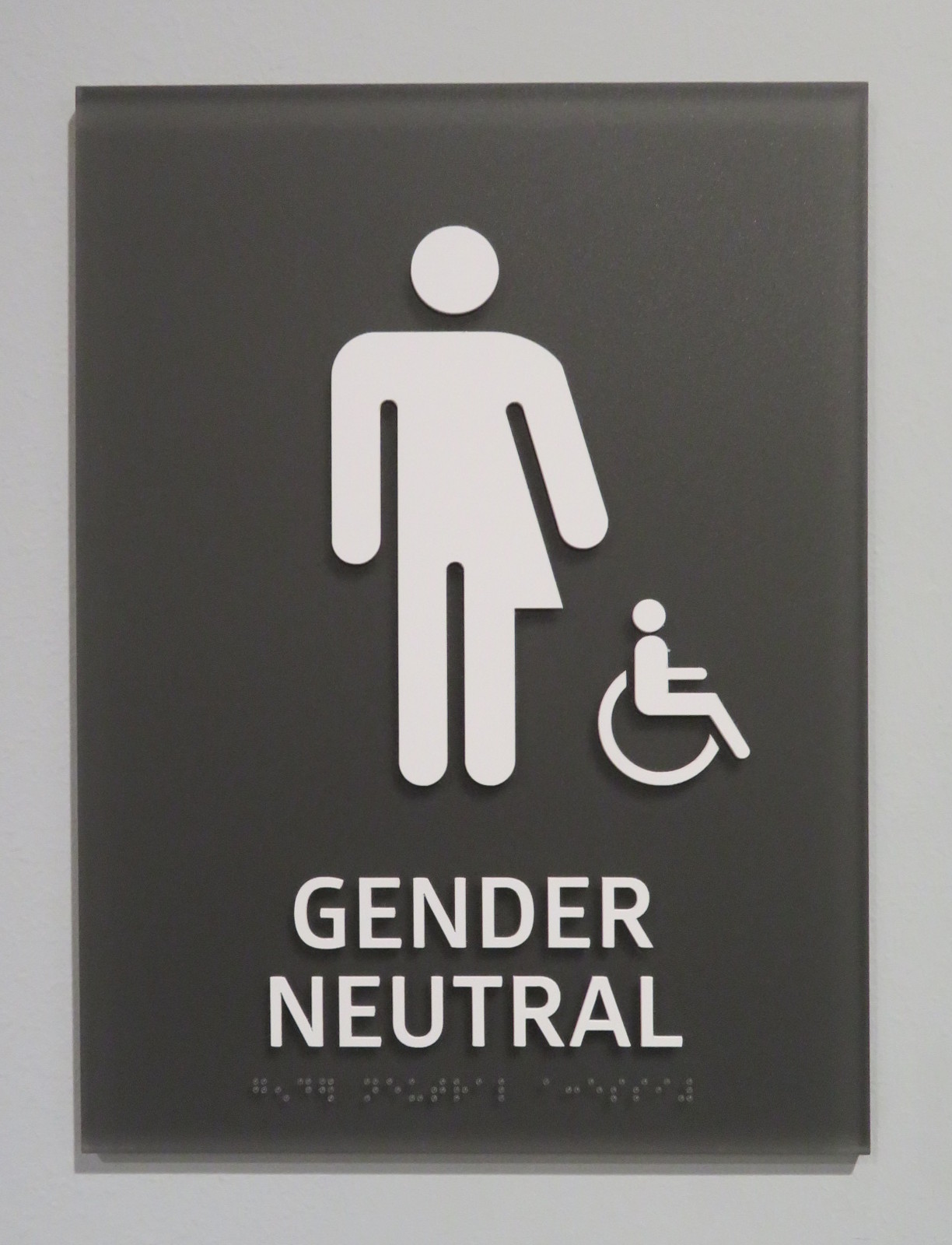 A sign outside a toilet for everyone, a unisex or gender-neutral toilet, with handicapped access and Braille lettering saying "gender neutral accessible".